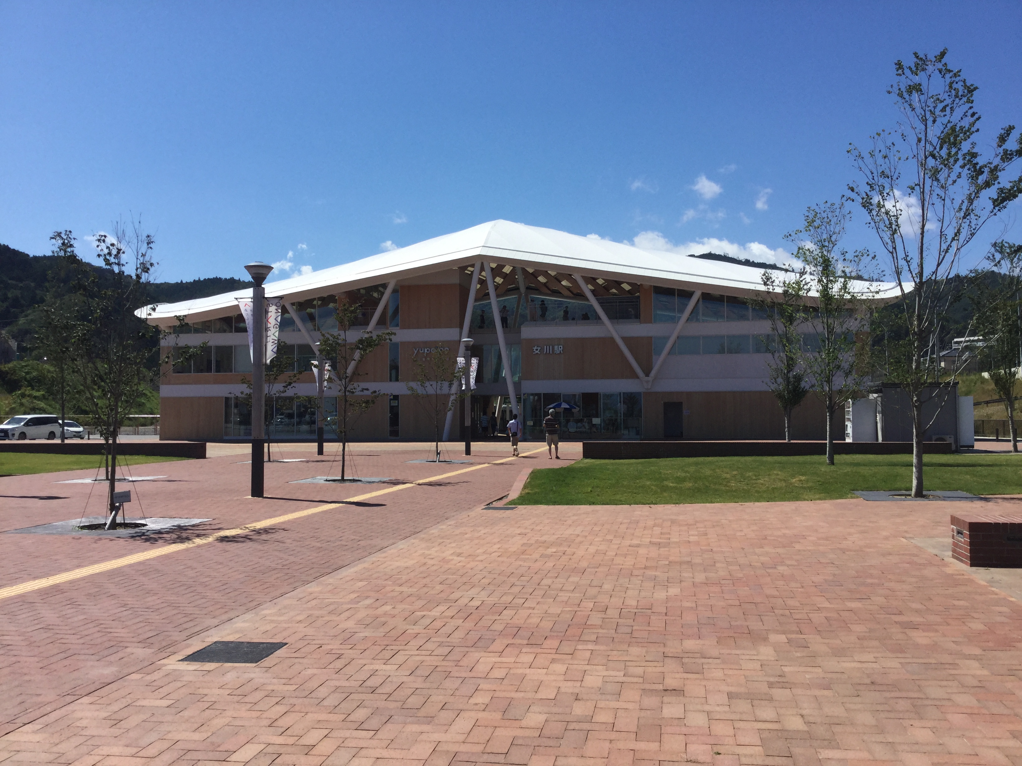 Onagawa Station in Miyagi Prefecture